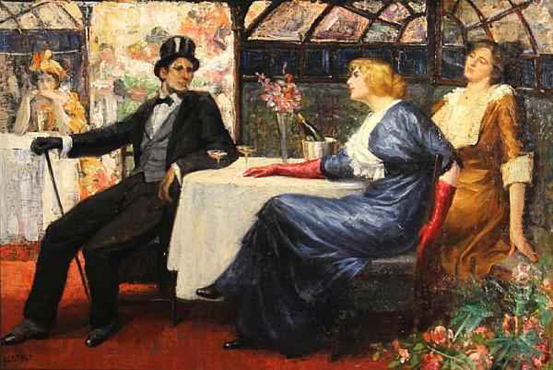 At the Cafe